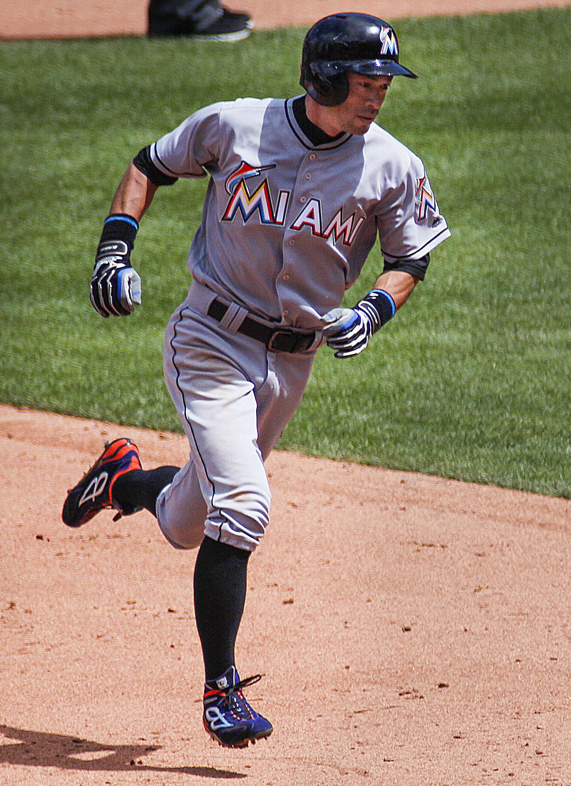 Ichiro Suzuki rounds third in St. Louis, 2016. Cardinals player Greg Garcia looks on.